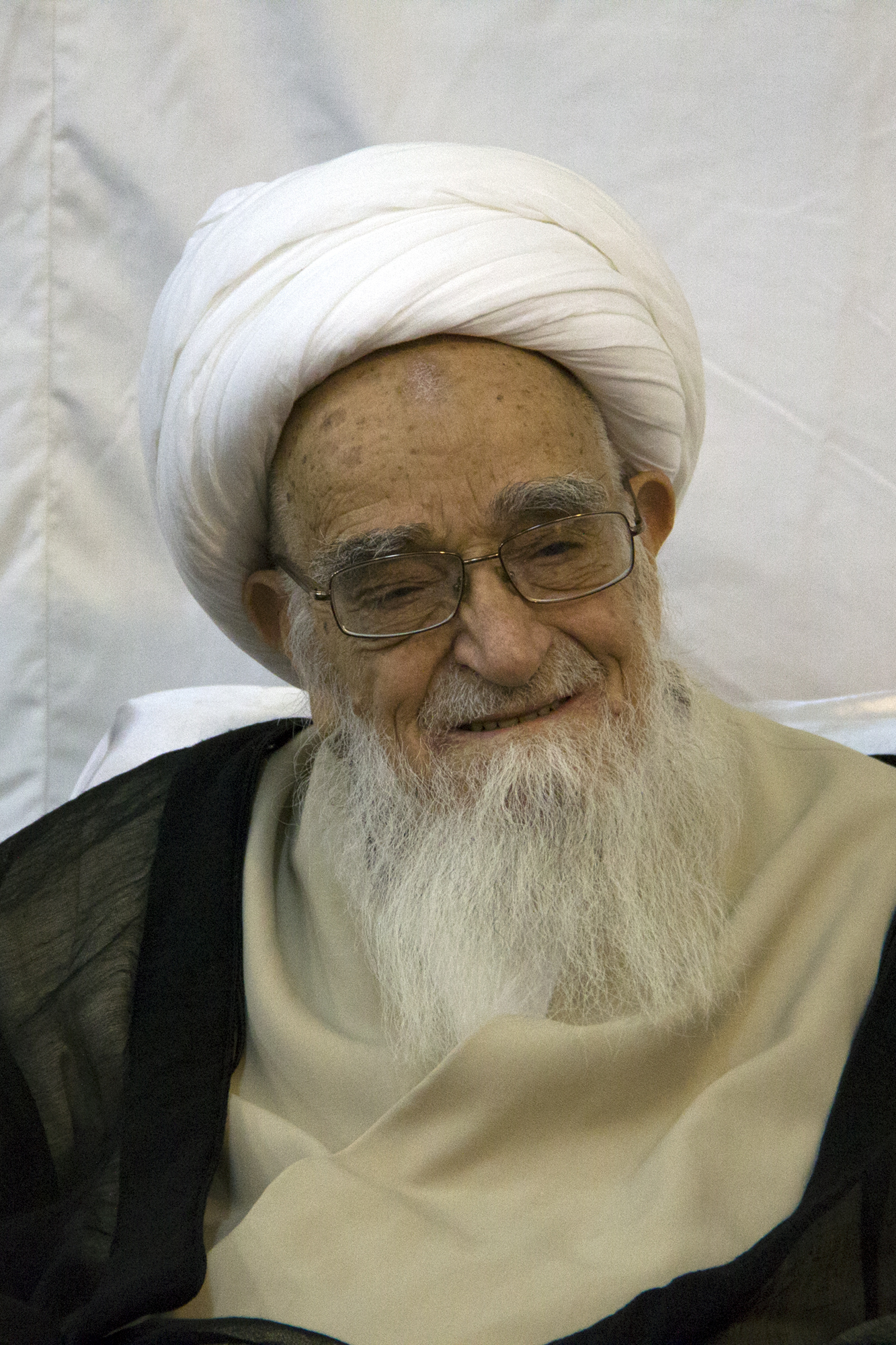 Grand Ayatollah Lotfollah Safi Golpaygani (born February 20, 1919) is an Iranian Twelver Shia Marja. He was born in Golpaygan, Iran. He has studied in seminaries of Najaf, Iraq under Grand Ayatollah Borujerdi. He currently resides and teaches in the Seminary of Qom, Iran. He is a supporter of the Islamic revolution in Iran and is known for his fatwa calling for the death of rapper Shahin Najafi for apostasy.